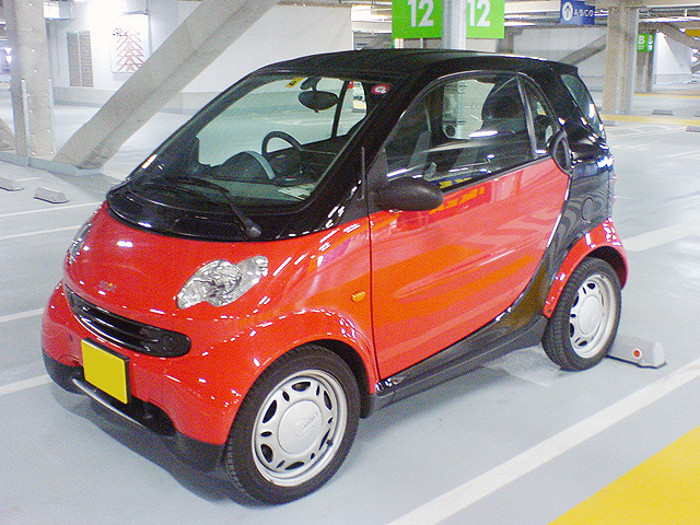 Smart K / Smart K Fortwo